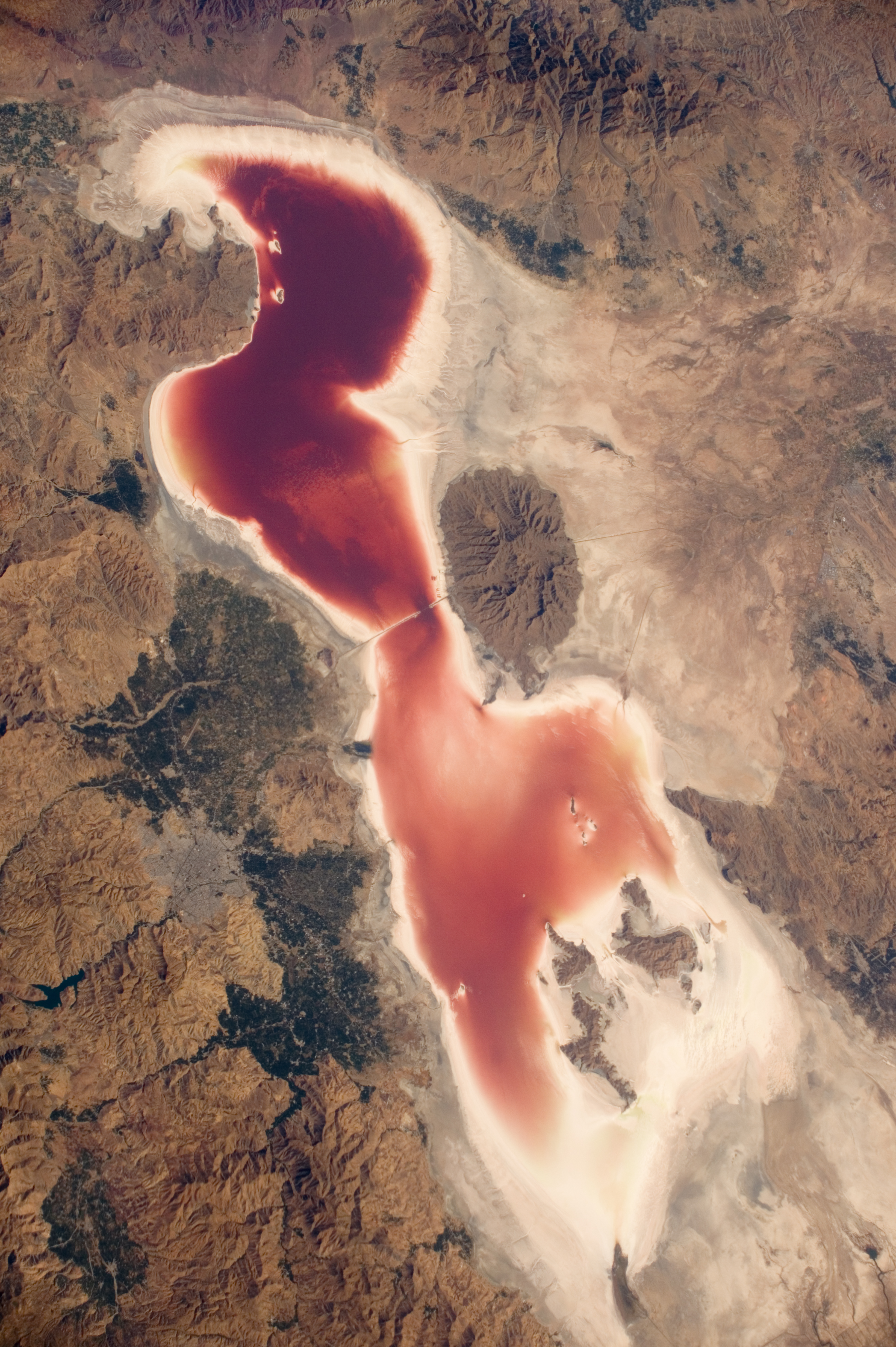 This photo of Lake Urmia in northwestern Iran was taken from the International Space Station.